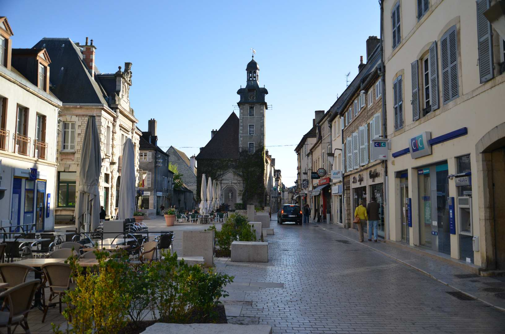 Belfry of Nuits Saint Georges